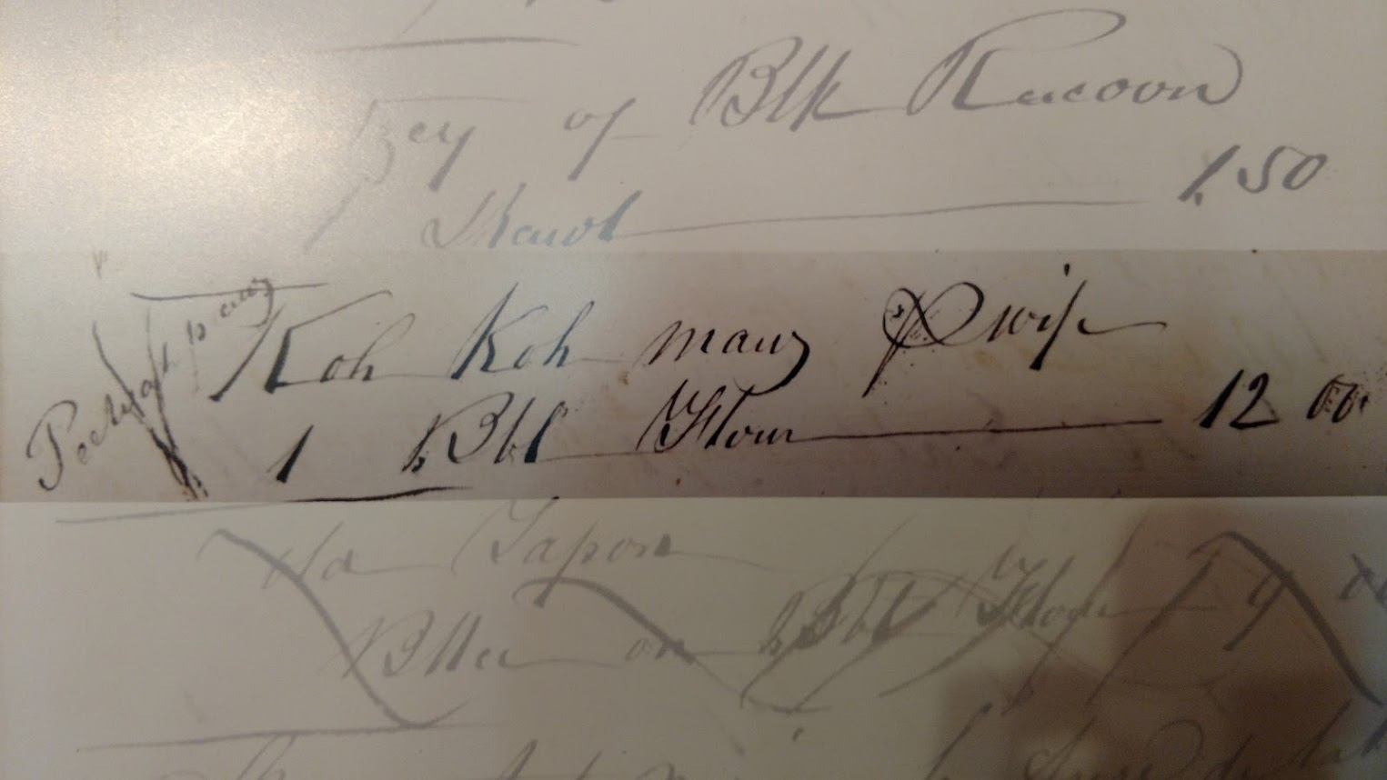 It is on display at the Seiberling Mansion in Kokomo, Indiana. The sign underneath the photograph reads as follows: "Trading Post Ledger This image is from the ledger of Godfrey's trading post in Mississinewa. A man named Koh Koh Maw was billed twelve dollars for a barrel of flour. The entry depicted was recorded on June 27, 1838."